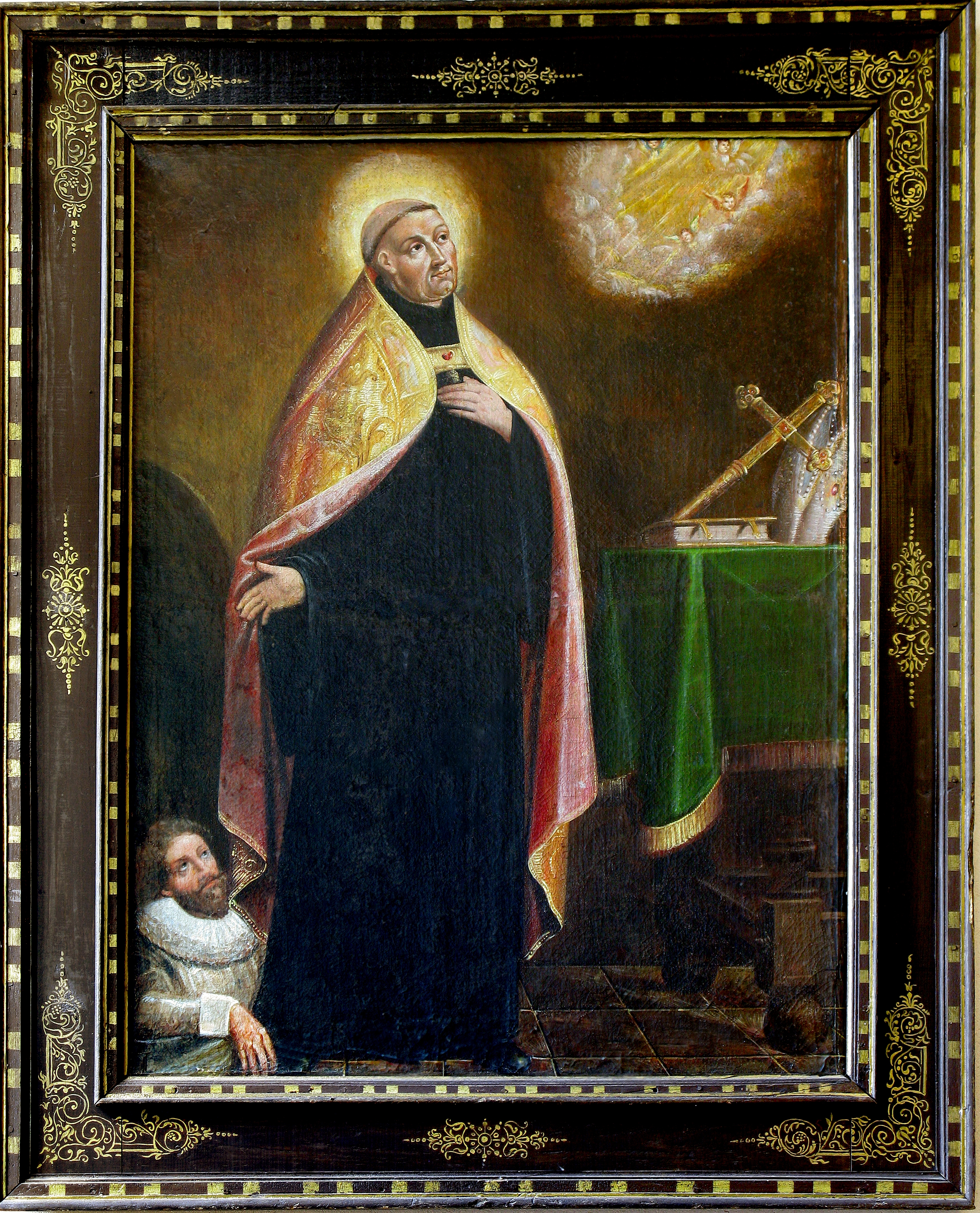 Lanfranc of le Bec and, at his feet, Berengar of Tours against whome Lanfranc had to defend the doctrine of transubstantiation.